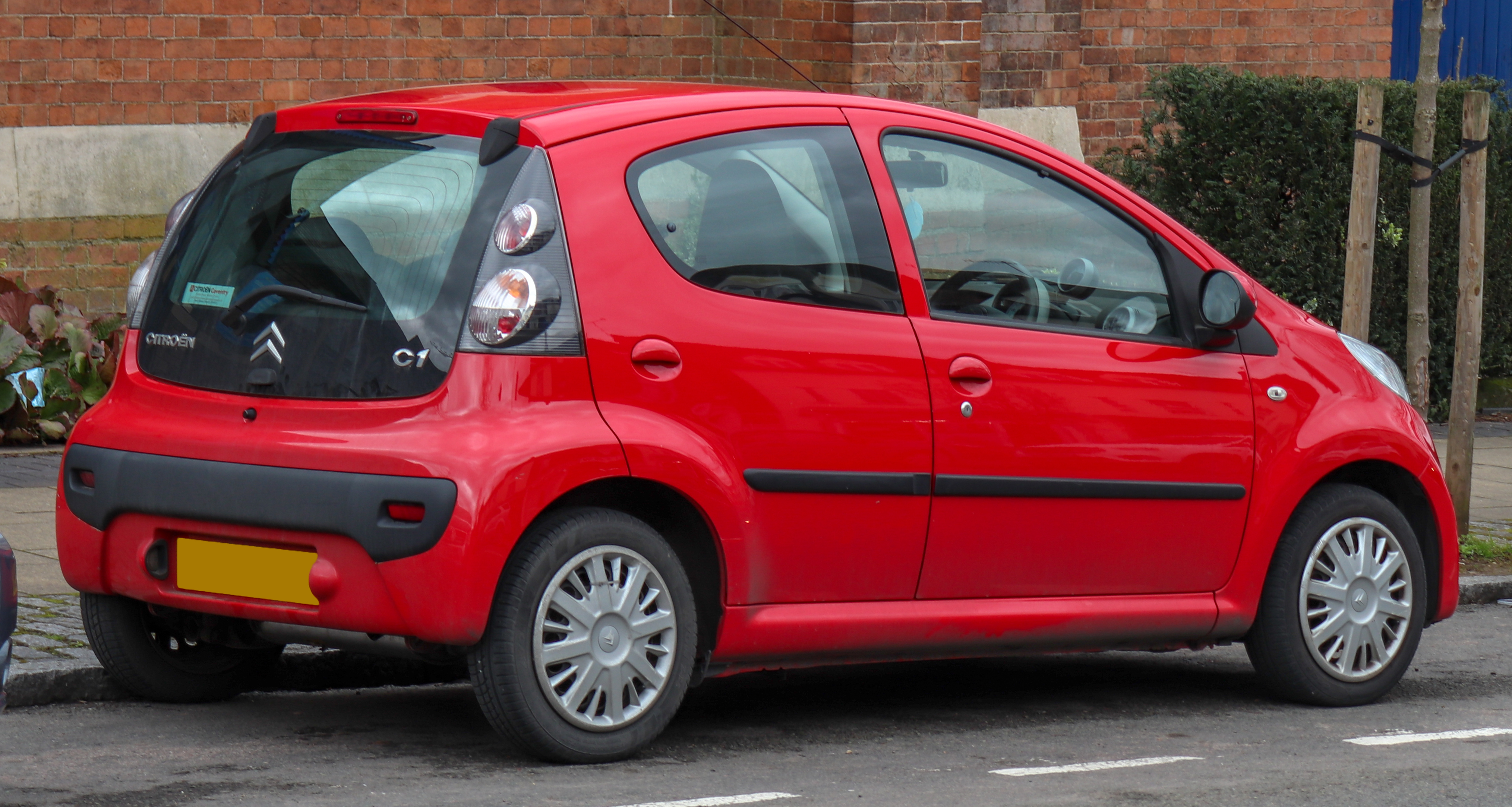 2008 Citroen C1 Rhythm 1.0 Rear Taken in Warwick